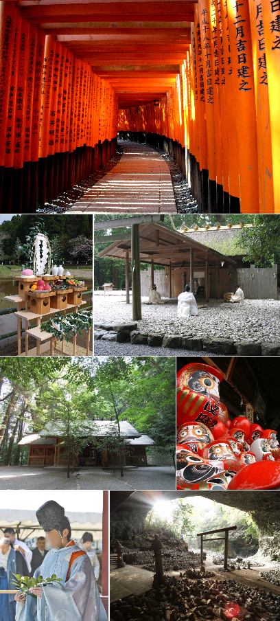 Montage of Shinto